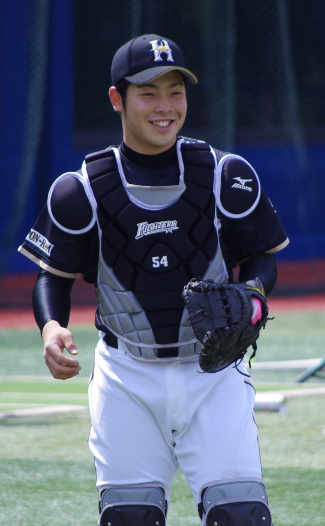 Kensuke Kondo, catcher of the Hokkaido Nippon-Ham Fighters, at Yokohama Stadium.